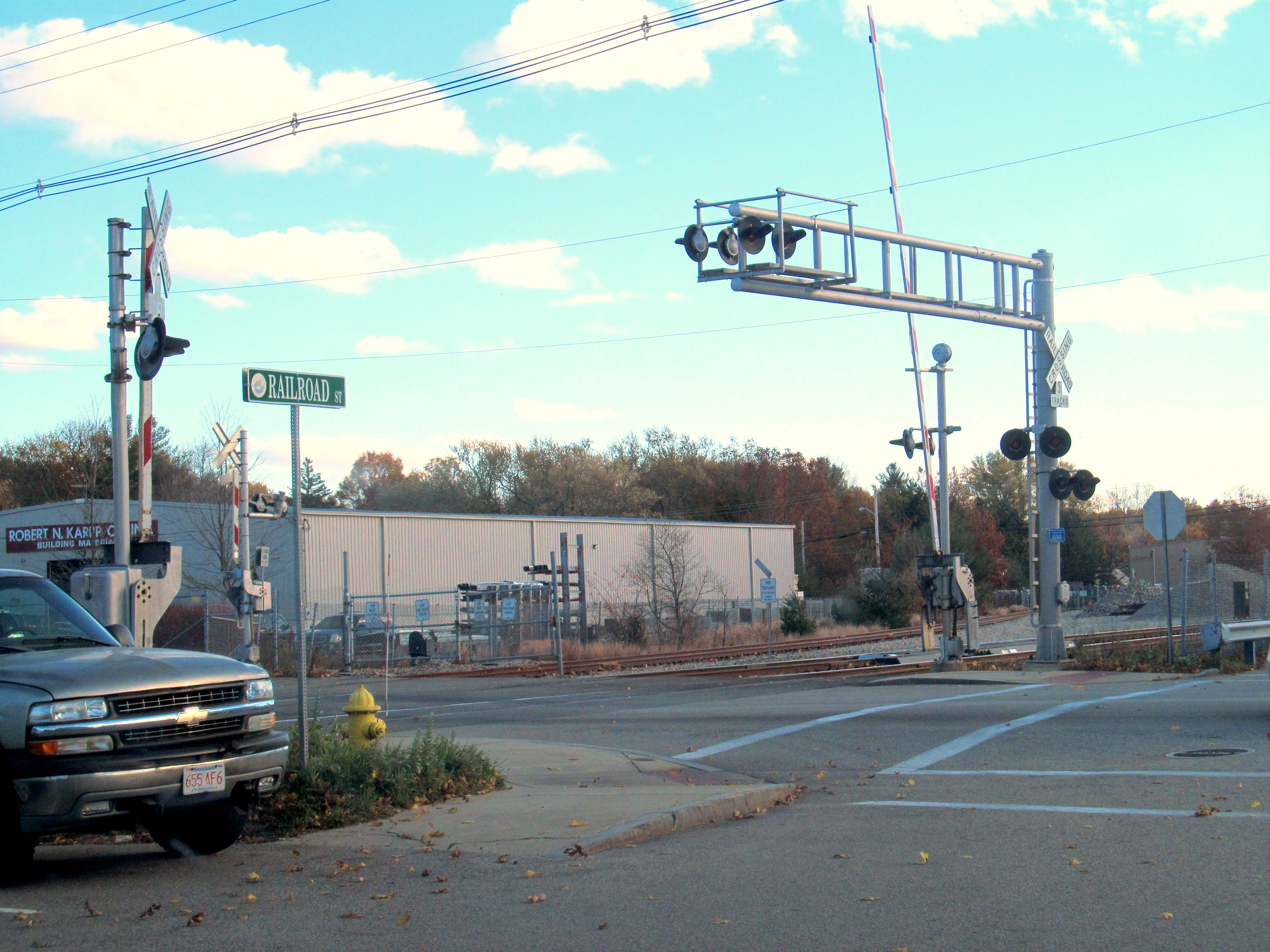 North Avenue grade crossing in November 2016. In 1893, the New Haven Railroad illegally ripped up trolley tracks at the grade crossing, sparking the North Abington Riot. The nearby North Abington Depot was built by the railroad as a peace offering to the town.